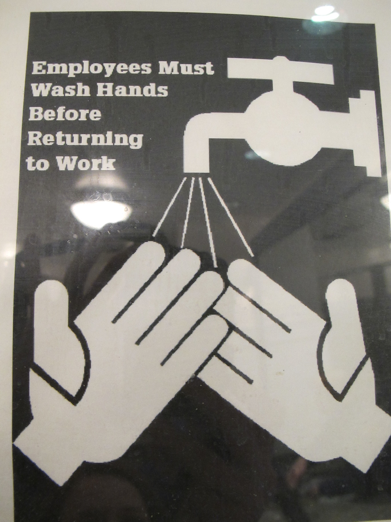 Employees must wash hands before returning to work Manhattan, New York City